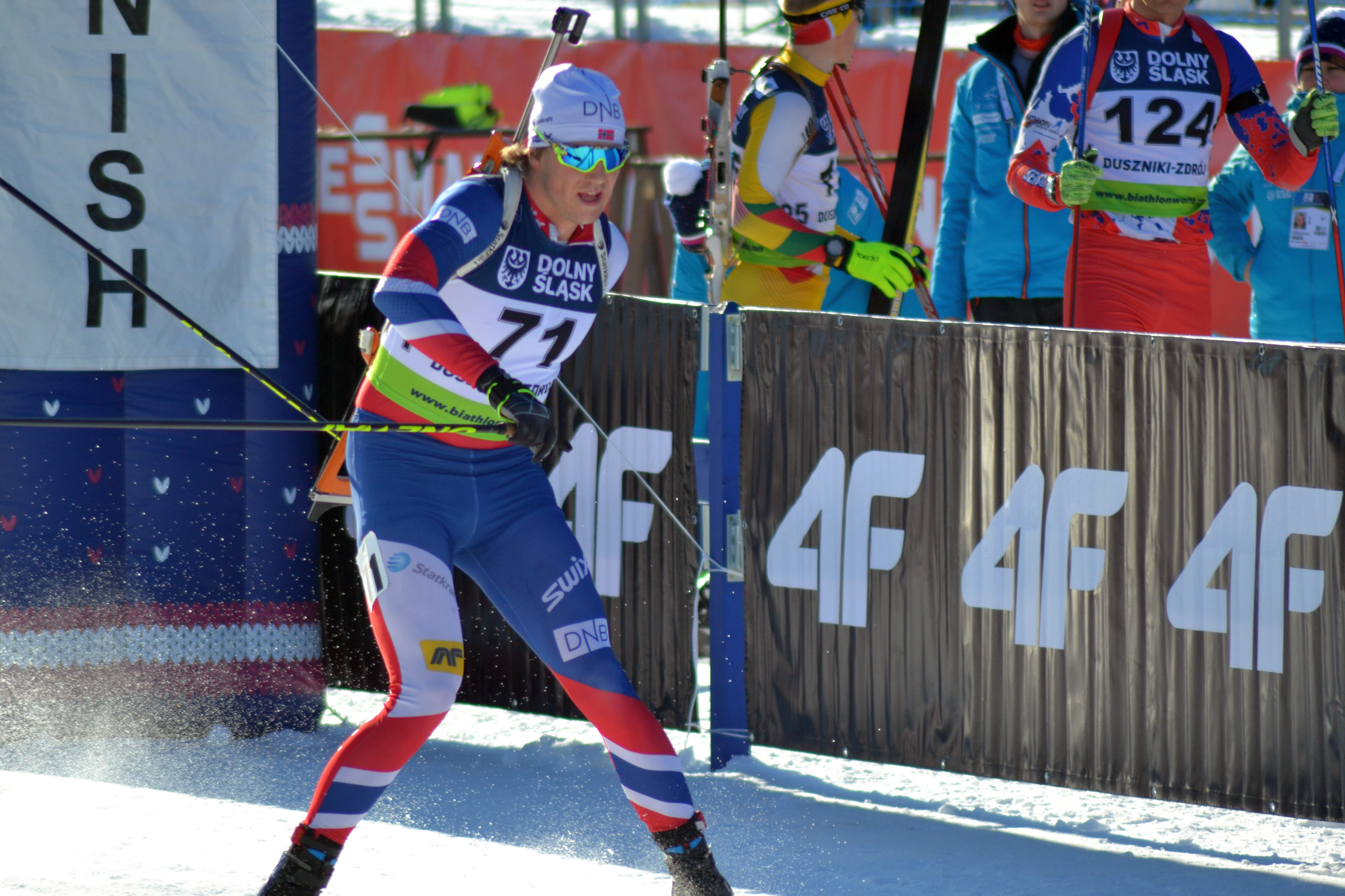 Open European Championships Biathlon 2017, Sprint Men's race, held on January 27th.